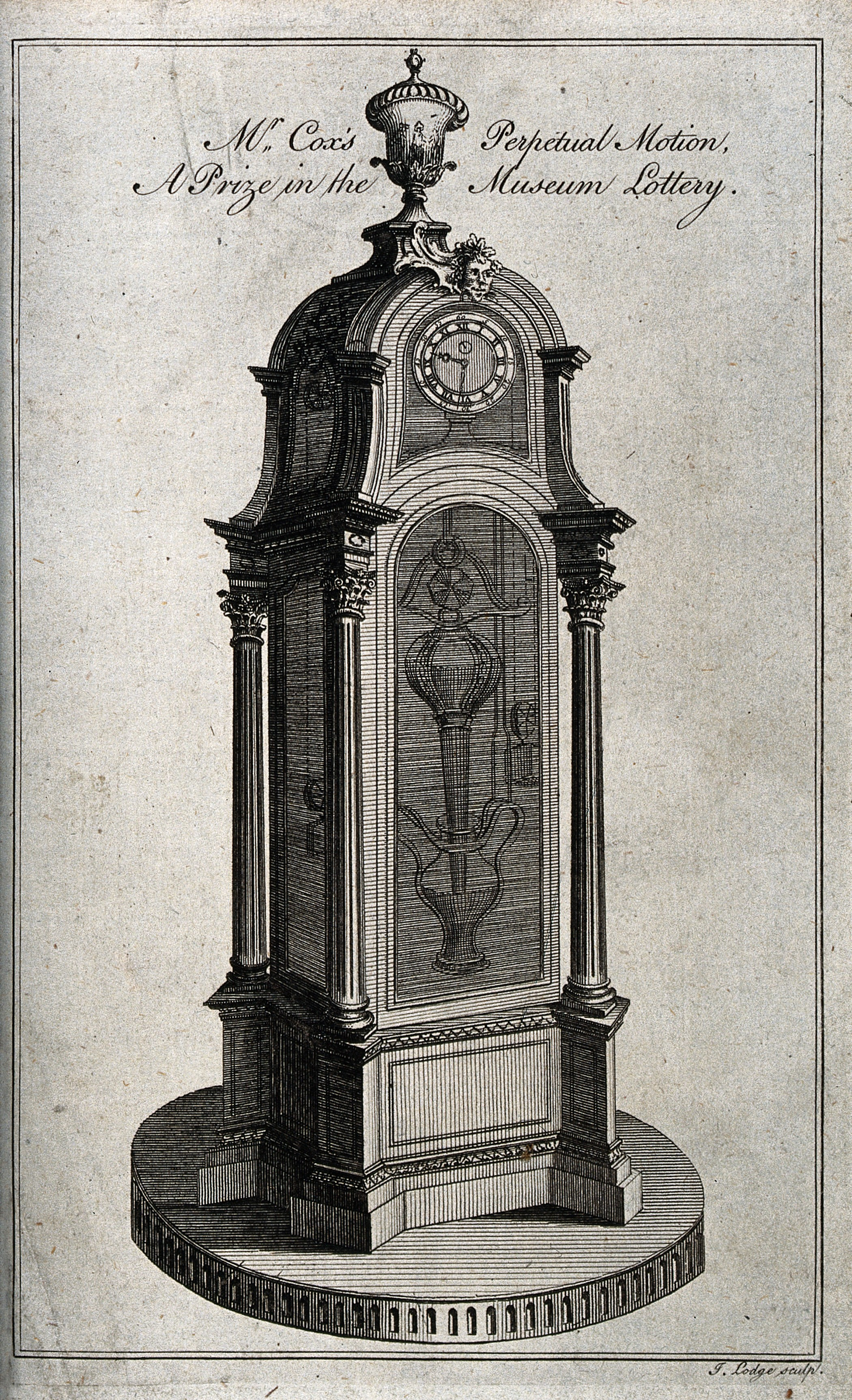 Clocks: James Cox's "perpetual motion" self-winding clock. Engraving by J. Lodge, 1774. Iconographic Collections Keywords: John Lodge; James Cox